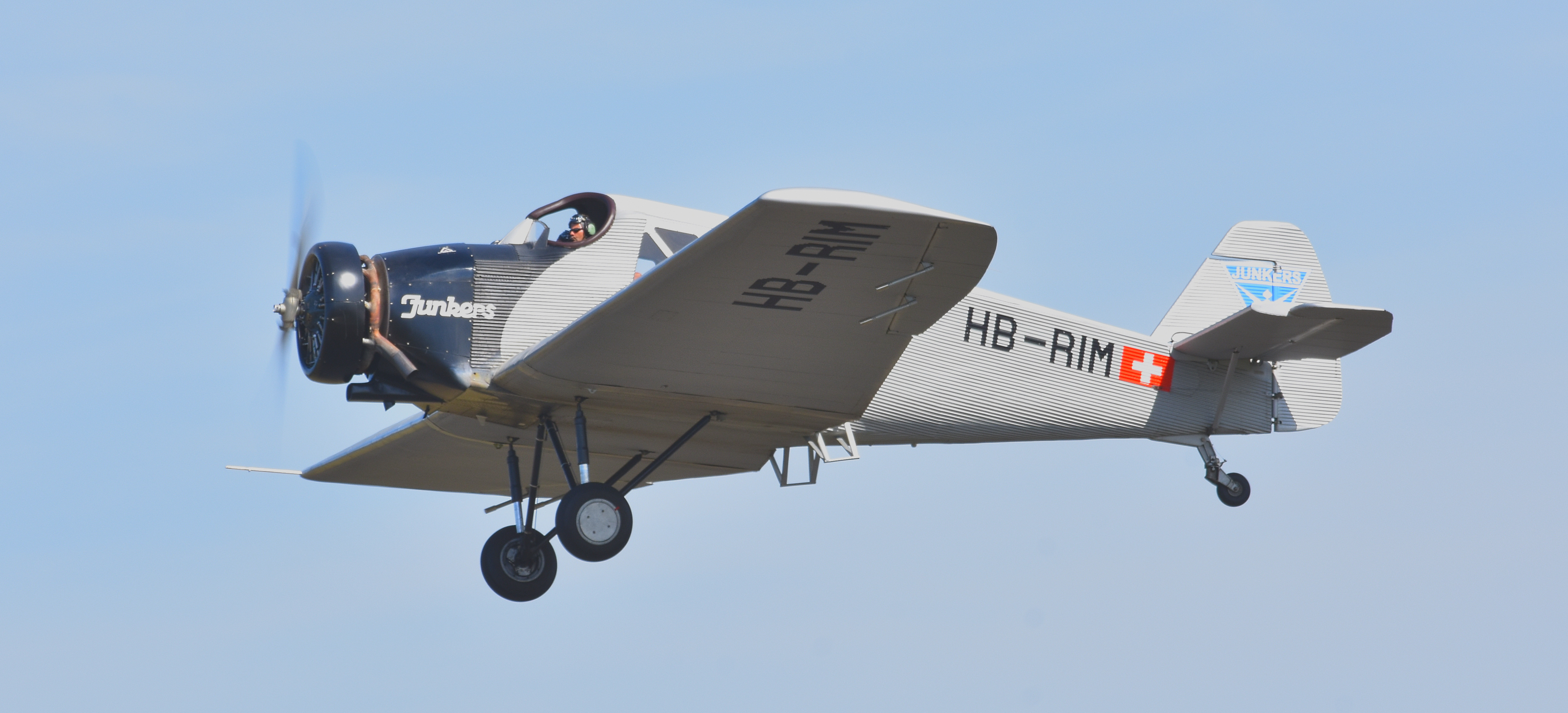 Junkers F13 Replica (Junkers Flugzeugwerke AG) 'HB-RIM' @ Airport Moenchengladbach (MGL), Germany Sep.15.2019